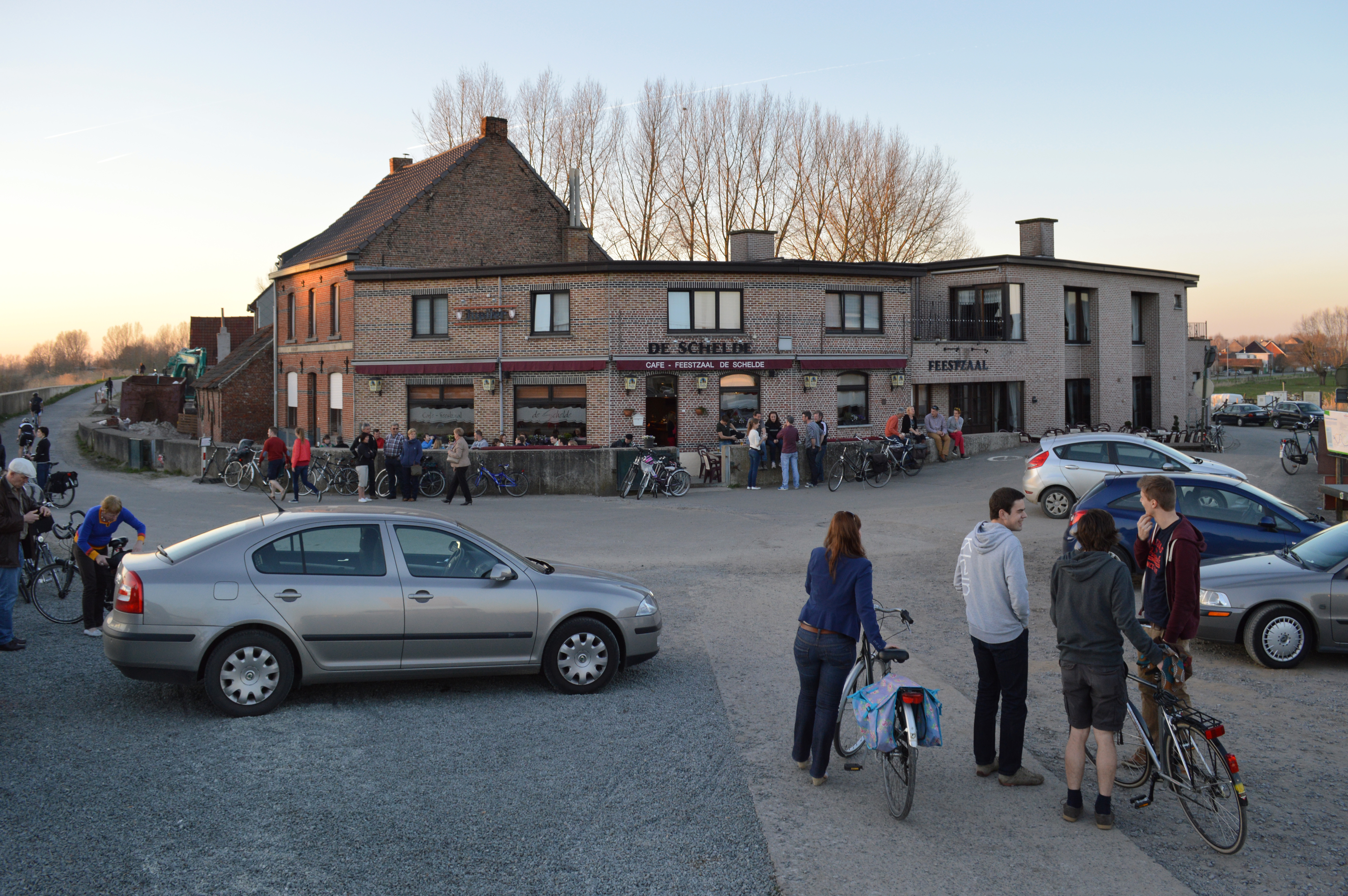 Café "De Schelde" in Den Aard, a hamlet on the Scheldt across Schellebelle, in the municipality of Wichelen, Belgium.